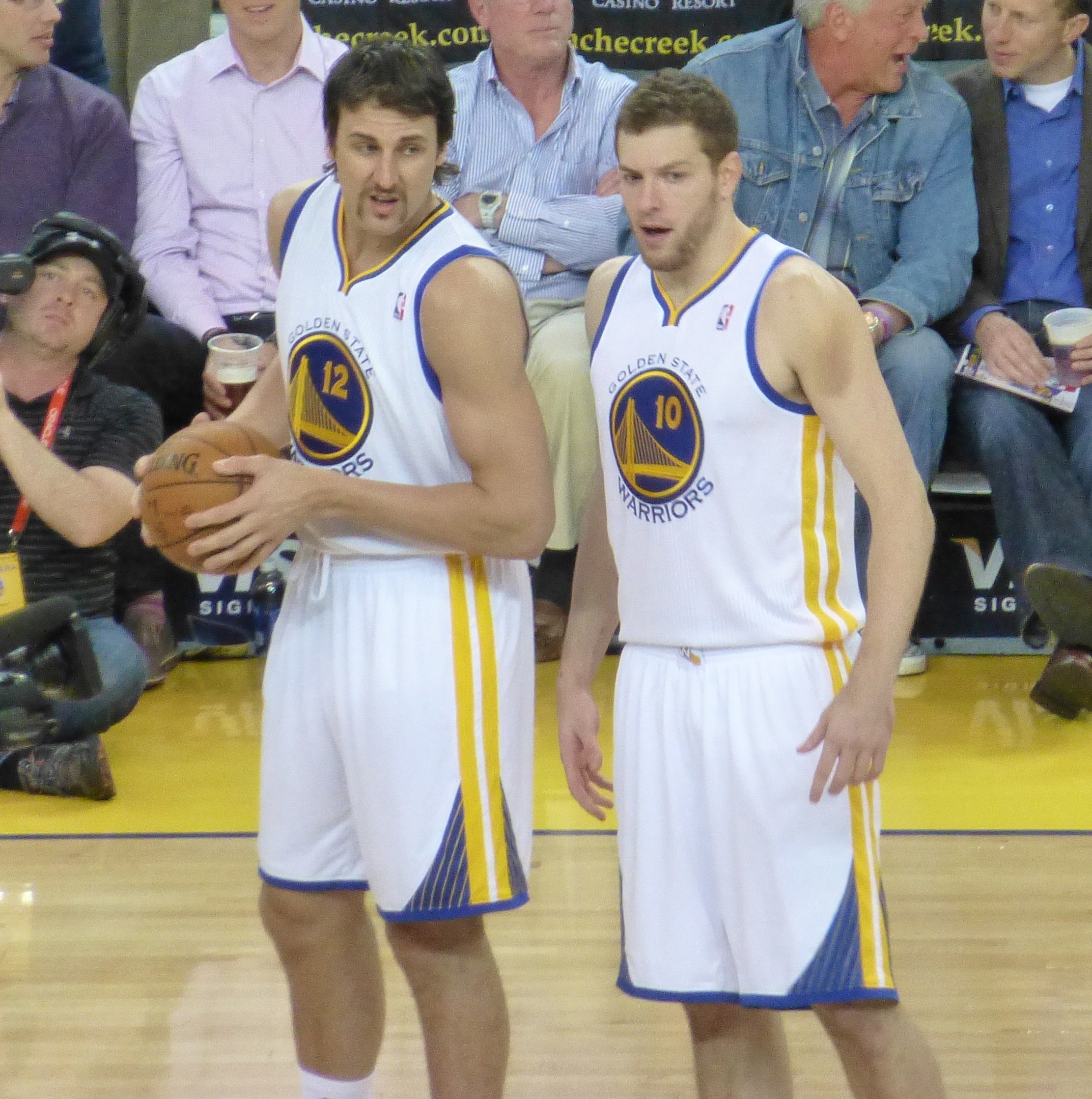 Golden State Warriors players Andrew Bogut and David Lee at the Oracle Arena